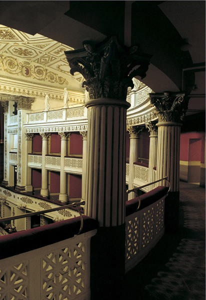 Restoration and renovation of the Teatro della Fortuna in Fano (Pesaro district). View of the Poletti auditorium.